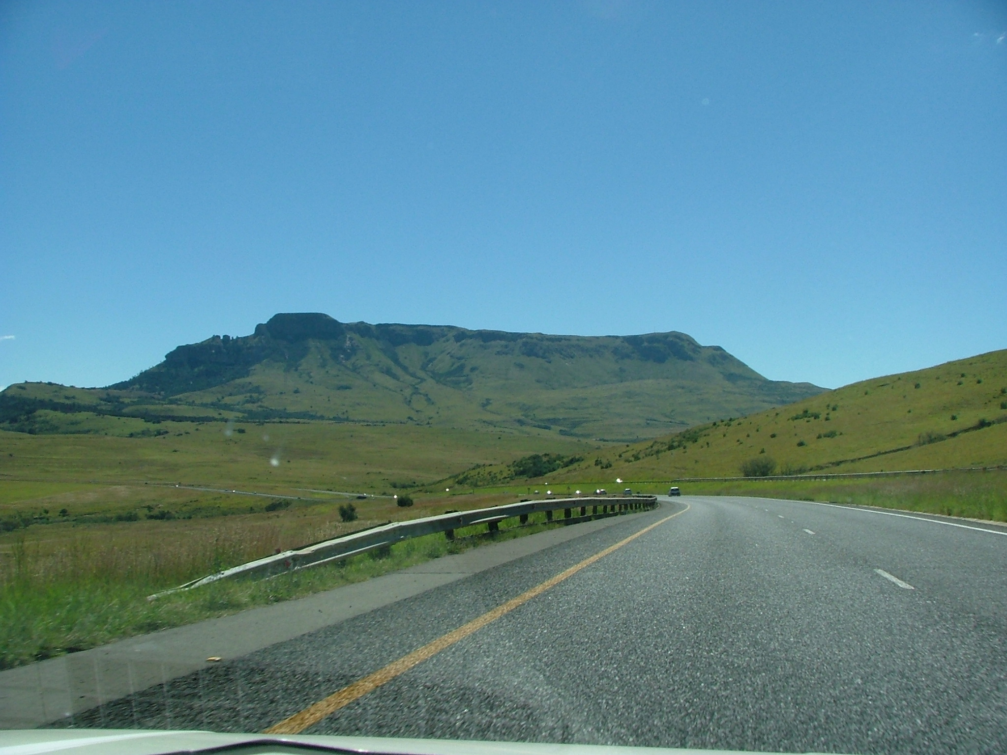 Van Reenen's Pass, Heading towards Johannesburg - N3 National road